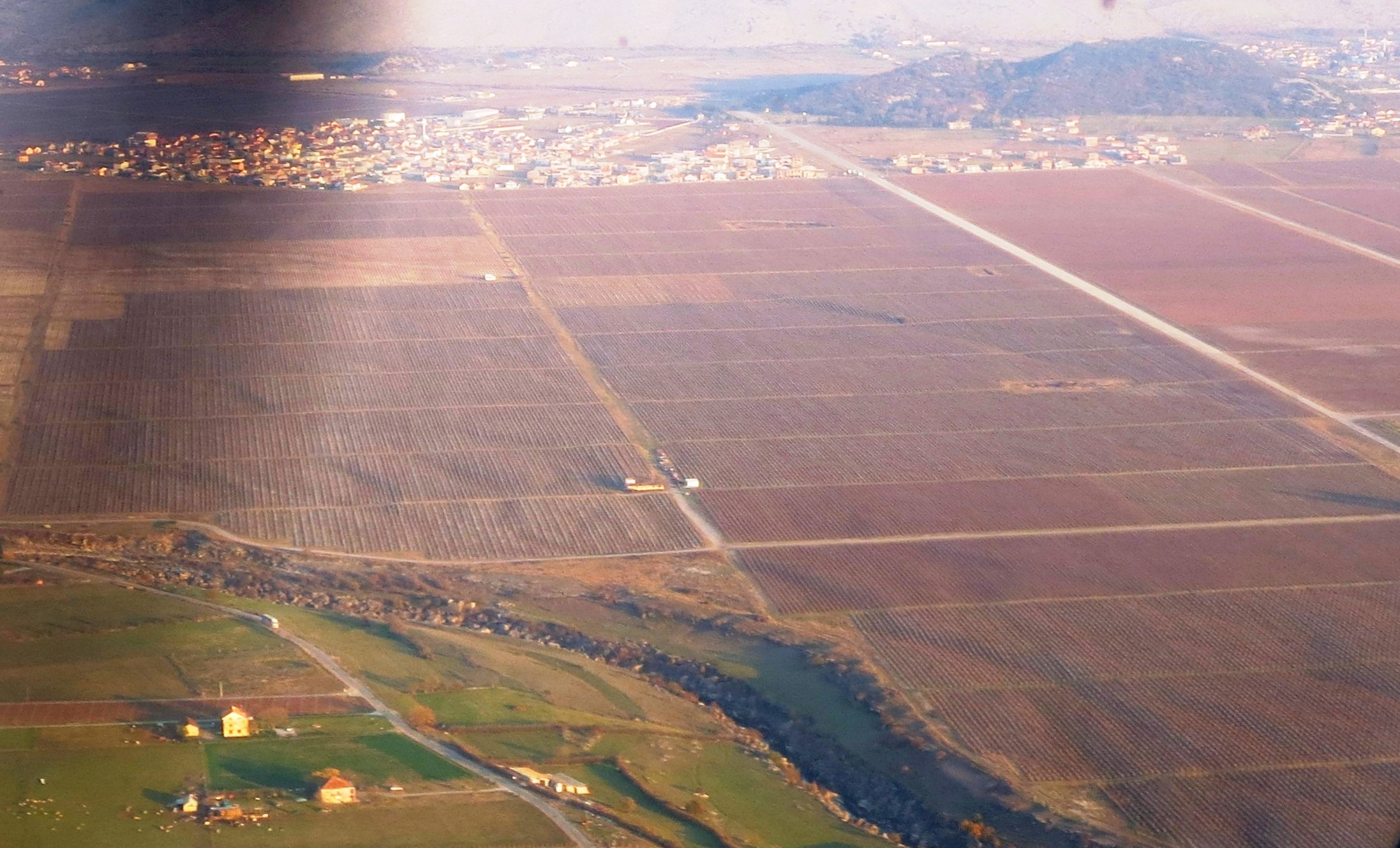 Aerial view of the Plantaze vineyard by the Podgorica airport, Montenegro. This wine Field is the largest single one in Europe, it fills up almost the entire northern part of the Podgorica plain and produces the main staple wines of Montenegro. The "Vranac" red wine is among the main brands. The dark shadow is the plane's propellar.